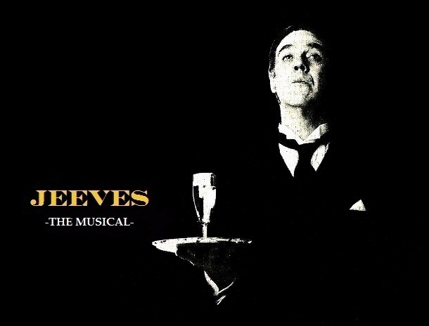 Fan art for Jeeves musical. Artwork and title created by me.